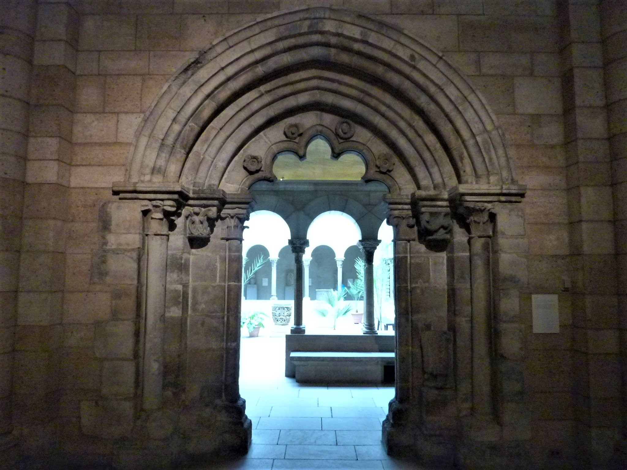 Doorway of Notre-Dame, Reugny, at The Cloisters Museum New York